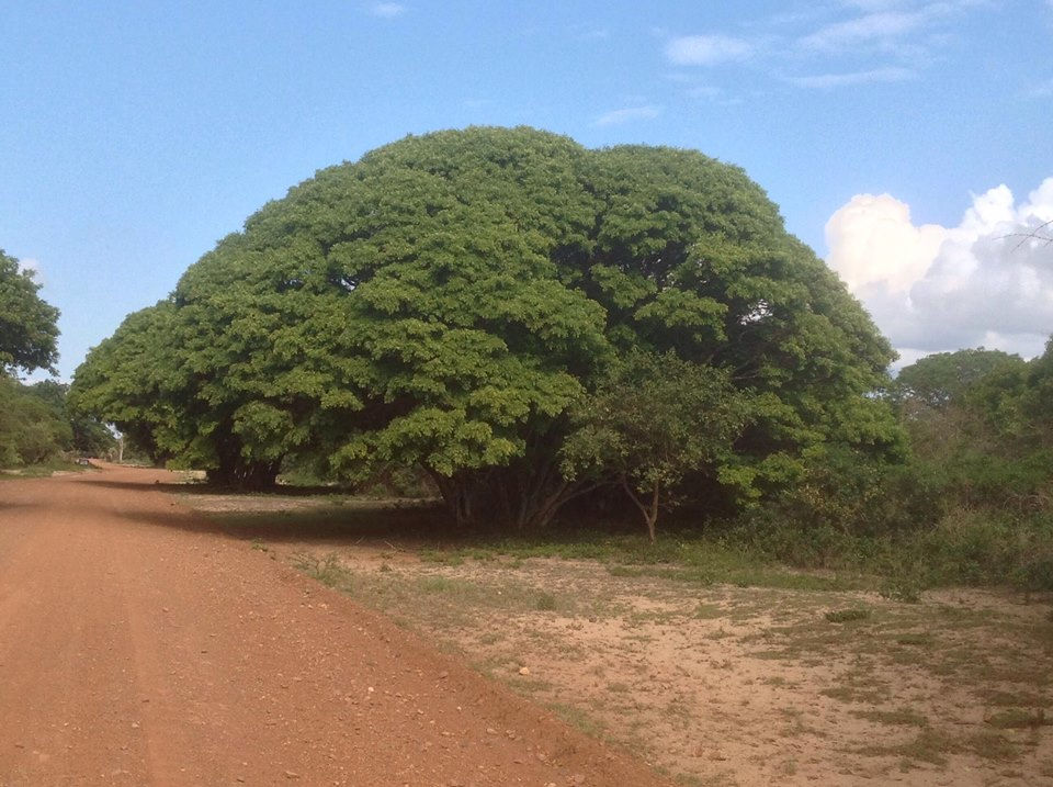 Dialium schlechteri Harms - Bonamanzi Game Reserve near southern end of Lake St Lucia, Natal, South Africa